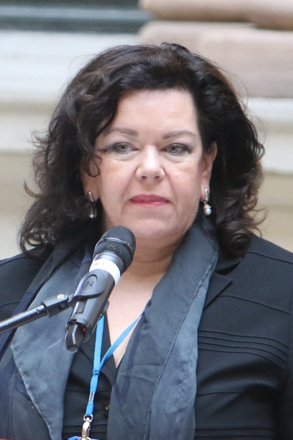 Karen Elizabeth Pierce CMG